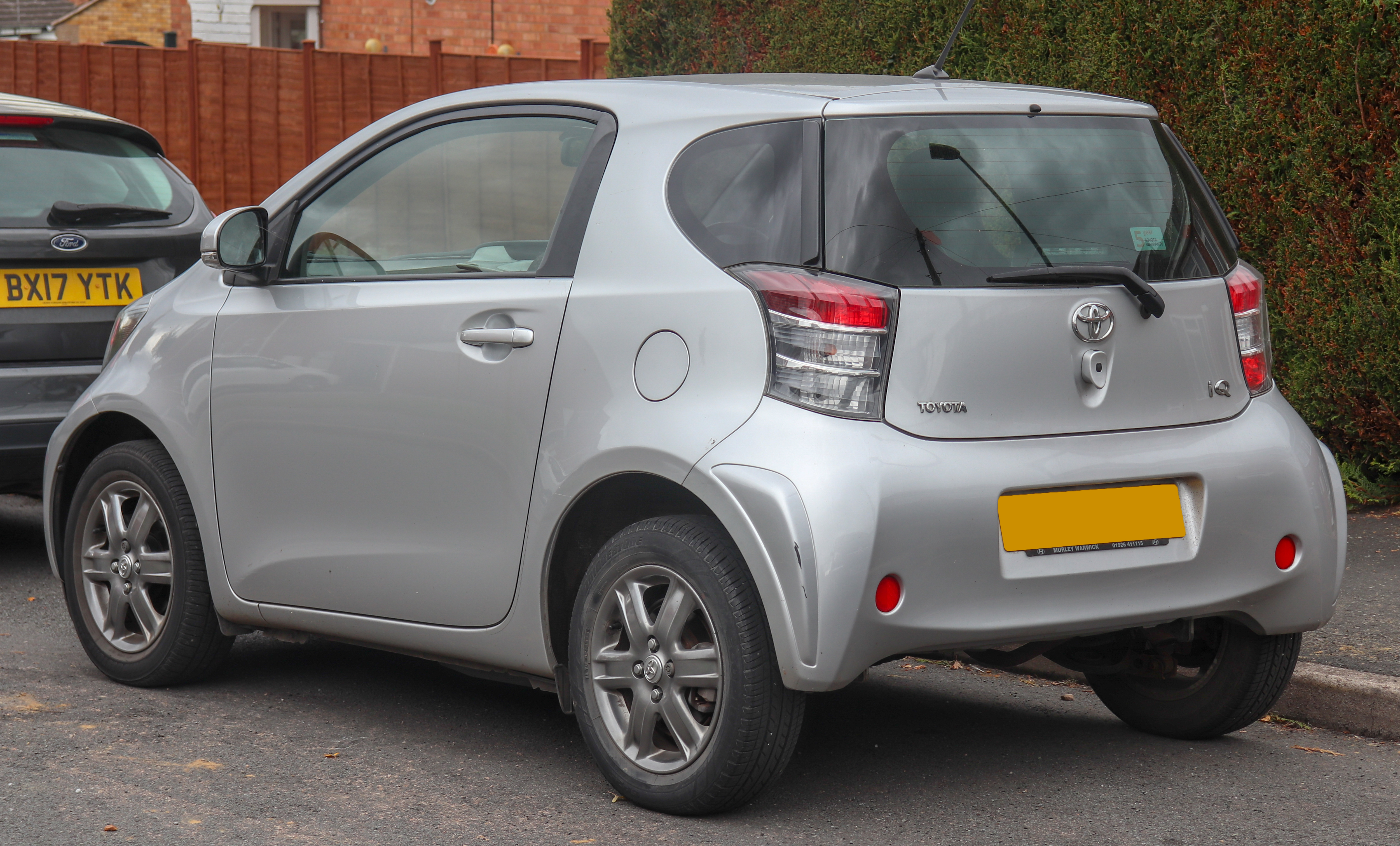 2010 Toyota iQ2 VVT-i 1.0 Rear Taken in Whitnash